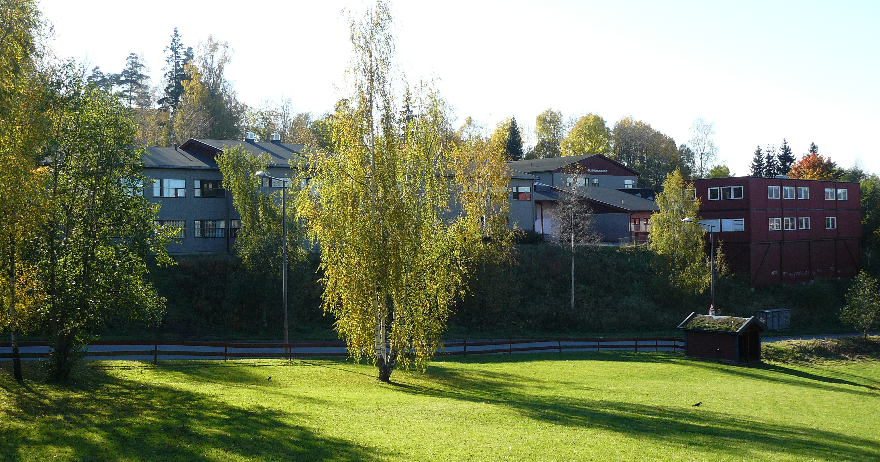 Skjønnhaug school at Lindeberg in Oslo, Norway